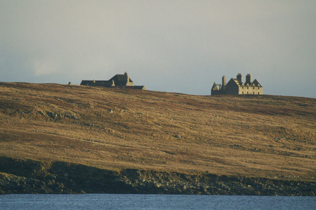 Uyea Hall The hall on the right was the home of the Neven-Spence family, most notably Sir Basil Hamilton Hebden Neven-Spence, who was elected as Conservative MP for the constituency of Orkney & Shetland in 1935, a position he held until 1950 when he was replaced by the Liberal MP Jo Grimond. The buildings on the left are still habitable and were used by the shepherd who live on the island into the 1960s, and are still used by the current owners of the island when they are in lambing. The photo was taken from the Point of Burkwell on the Unst mainland.